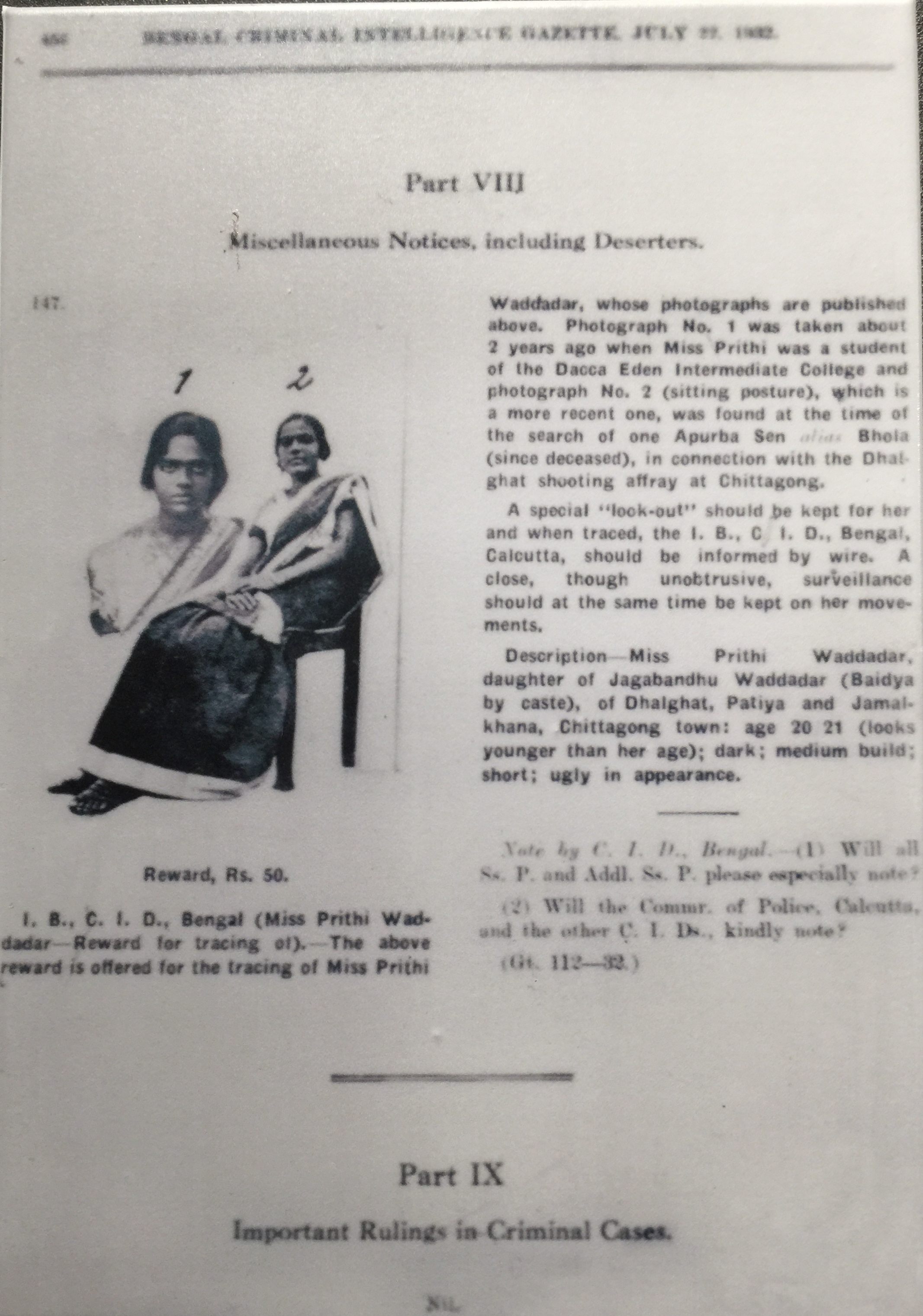 A notice published by Bengal CID.